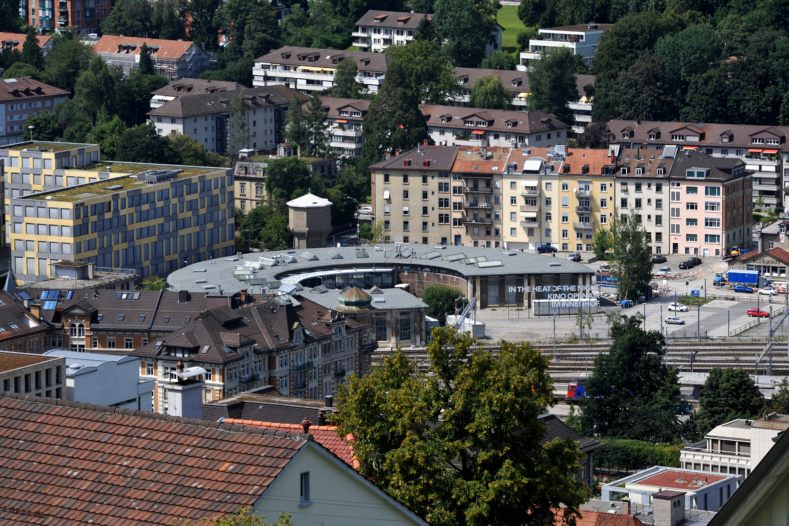 Water tower near the roundhouse at St. Gallen central station by Robert Maillart, built 1906; St. Gallen, Switzerland.